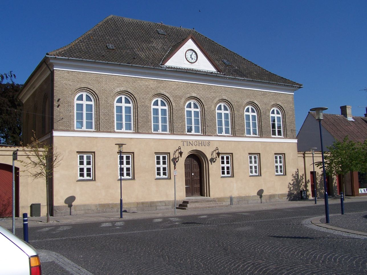 (c) 2006, Niels Elgaard Larsen St HEddinge Tinghus.